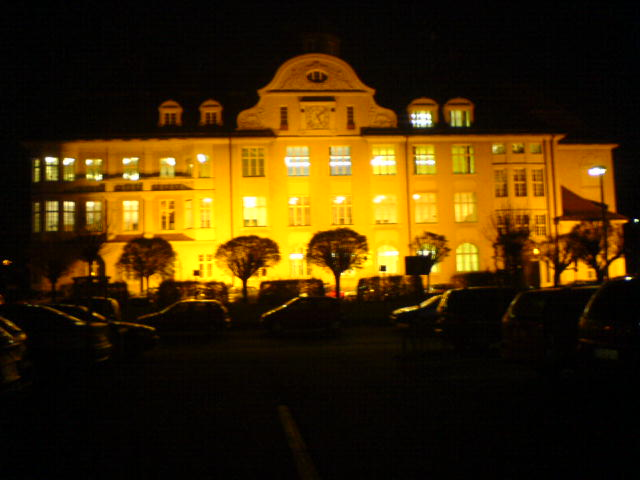 Comenius Gymnasium in Deggendorf, Bavaria, Germany at night